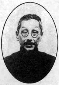 Zhang Hong, scholar from Changshu, China.